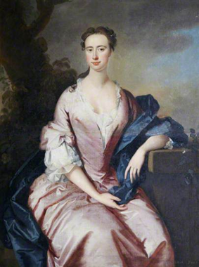 Christiana Maria Rolle (1710-1780), daughter of John Rolle (1679-1730), MP, of Stevenstone, Devon, and sister of Henry Rolle, 1st Baron Rolle (1708-1750). She married Henry Stevens (1689-1748) of Smythacott in the parish of Frithelstock and of Cross in the parish of Little Torrington, Devon. Her inscribed ledger-stone survives within Frithelstock church. Inscribed in grey paint lower right hand corner "Hudson pinxit". Portrait by Thomas Hudson, collection of Great Torrington Almshouse, Town Lands and Poors Charities. 49" * 39". Formerly in the collection of Hon. Mark Rolle (d.1907) of Stevenstone, given by his heir Lord Clinton.